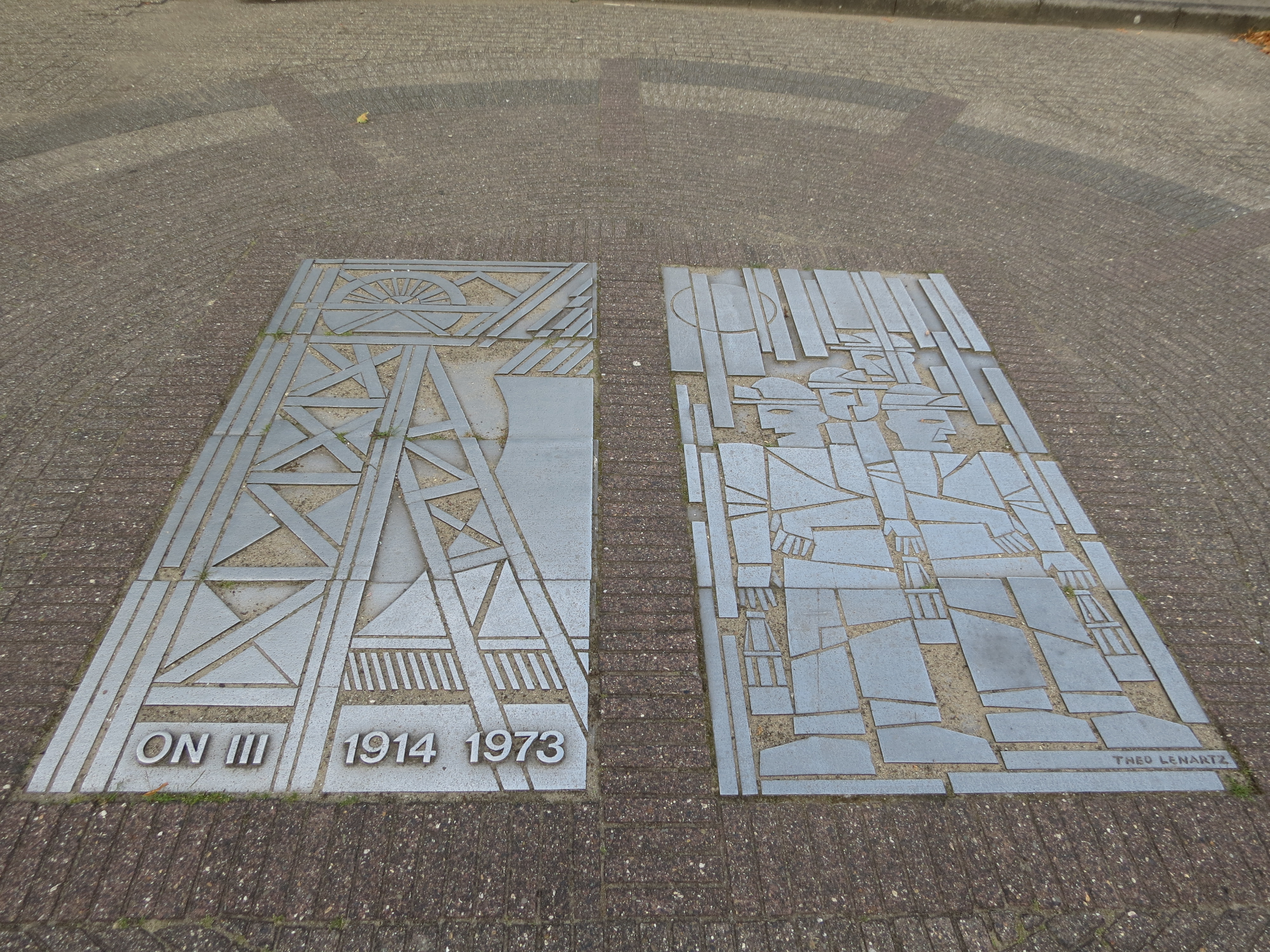 Cover of coal mine shaft of former coal mine Oranje Nassau III, Heerlerheide, The Netherlands